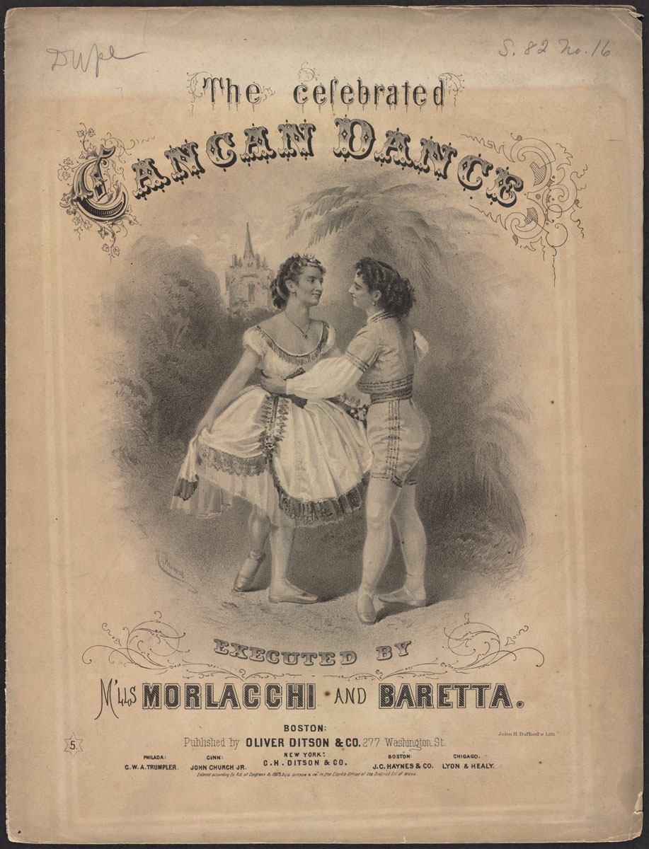 Accession No.: 07_07_000028 Call Number: no. 16 of S.82 Lithographer: Bufford, John H. Title of Lithograph: M'lls. Morlacci and Baretta dancing the Can Can Dance Composer: Paolo Giorza Title of Composition: Can Can Dance Place of Publication: Boston Publisher: C. H. Ditson Date: 1868 BPL Department: Music Flickr data on 2011-08-05: Camera: Sinar AG Sinarback 54 FW, Sinar m Tags: dc:identifier=07_07_000028 License: CC BY 2.0 User: Boston Public Library BPL